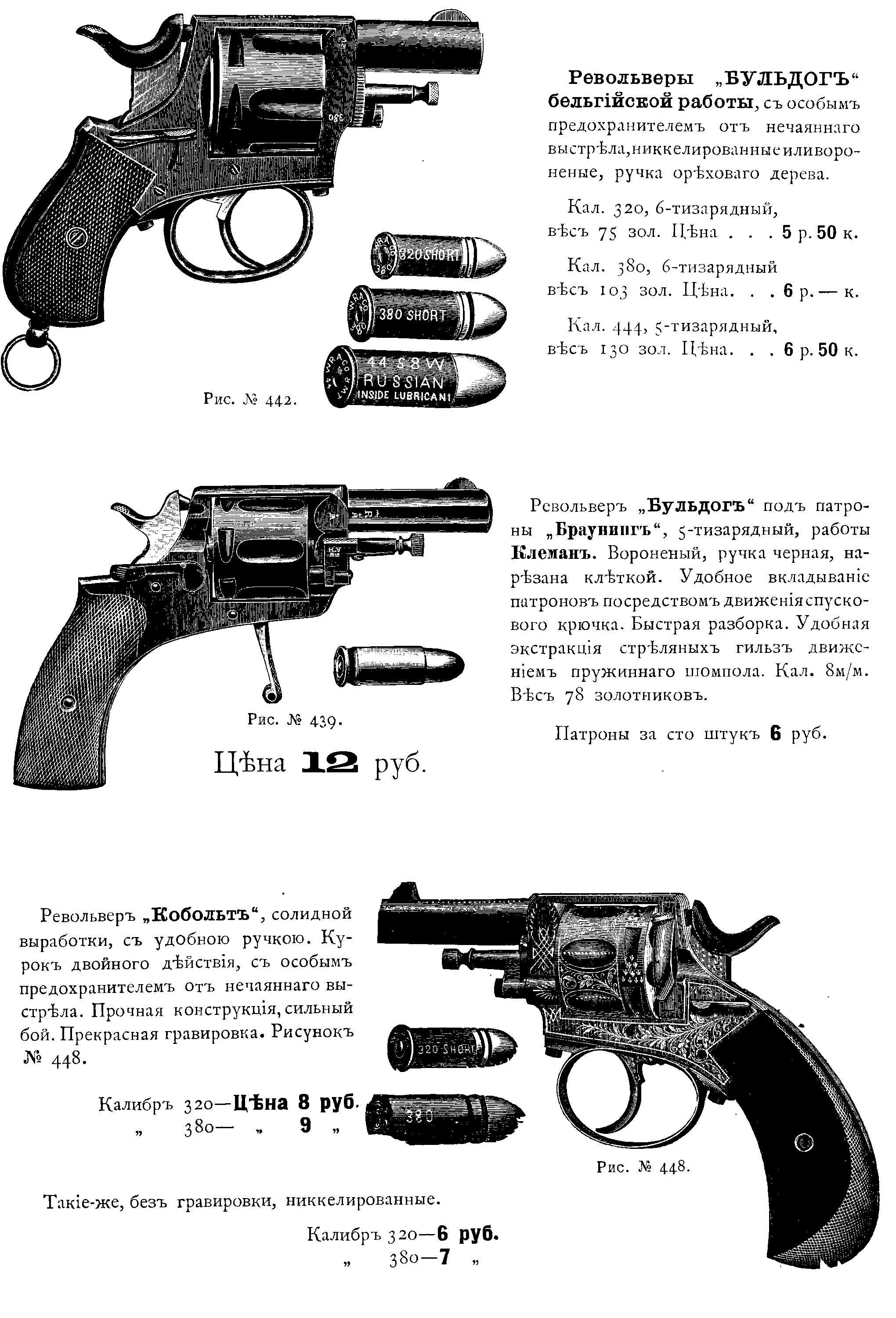 British Bulldog clones. Russian trade company price list, early 1900s.